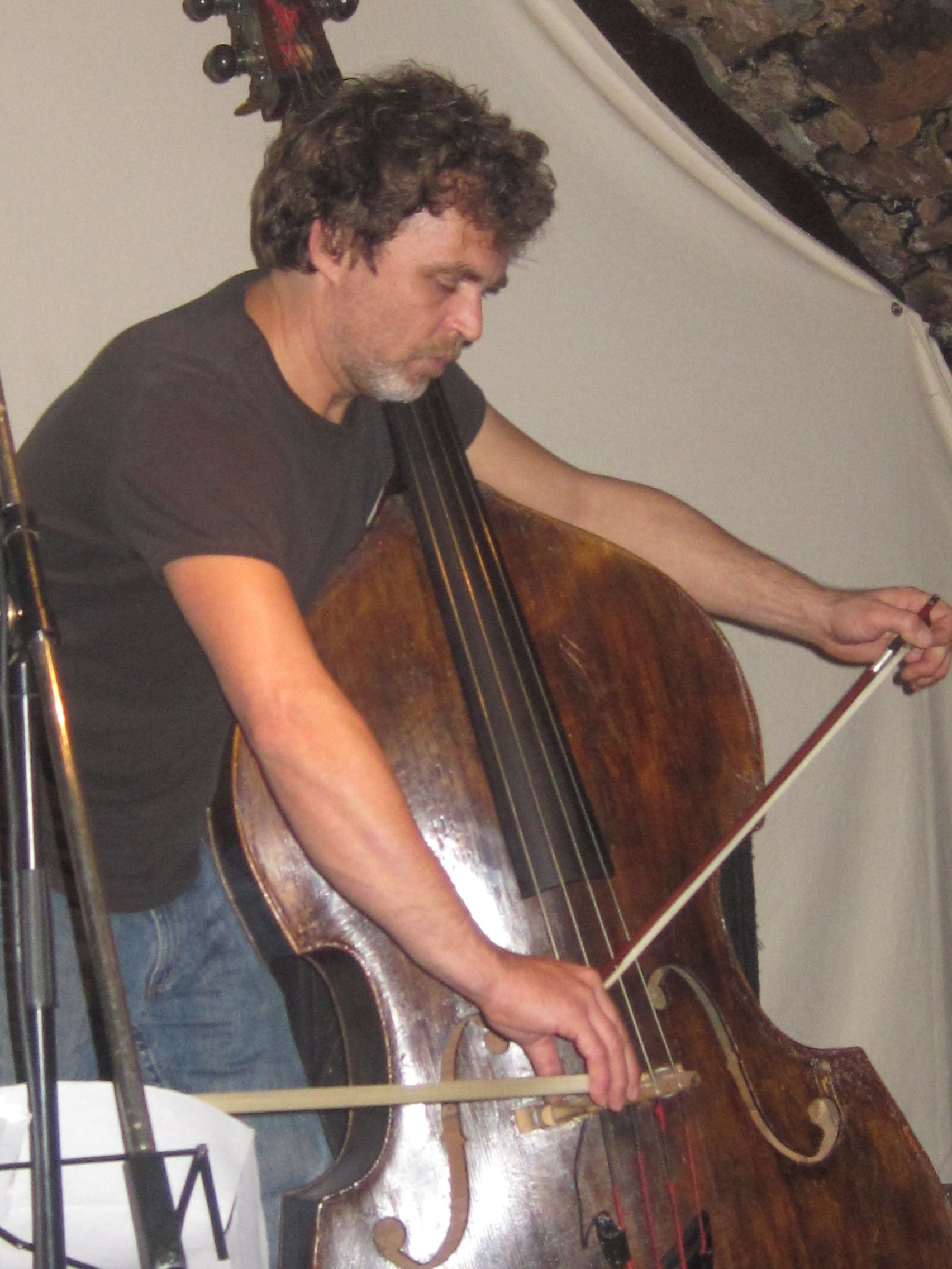 German jazz double bassist and bandleader Sebastian Gramss, Marburg 2014.